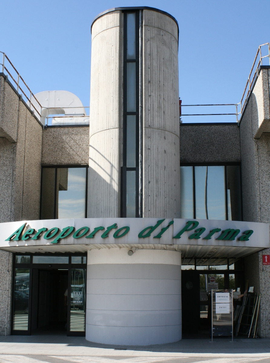 The Entrance to Parma Airport.